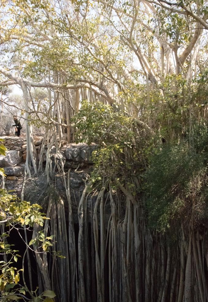 banyan fig with rooting hanging down into the sinkhole